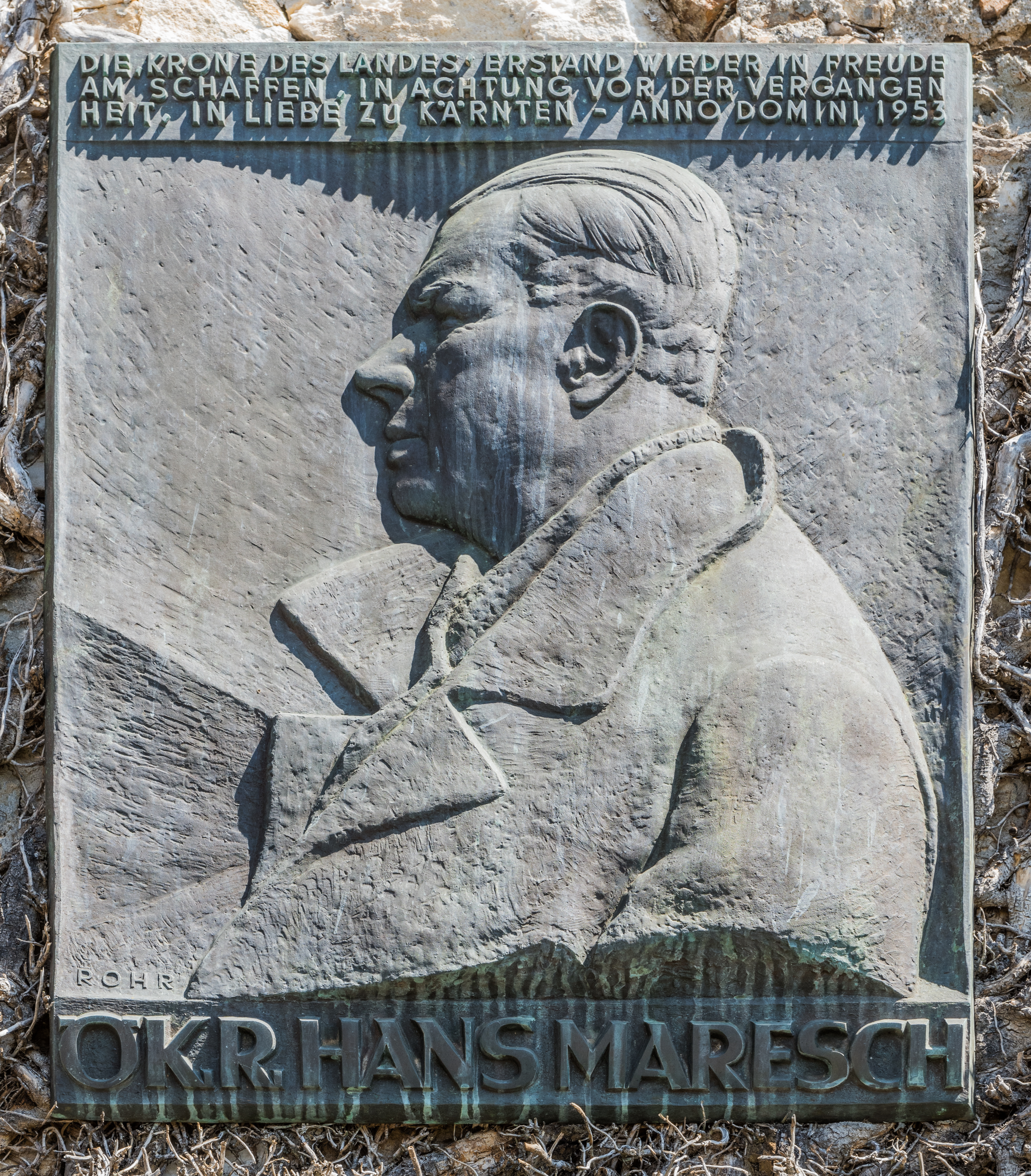 Stone relief of Hans Maresch at the castle ruin Landskron in Landskron, municipality Villach, Carinthia, Austria, EU